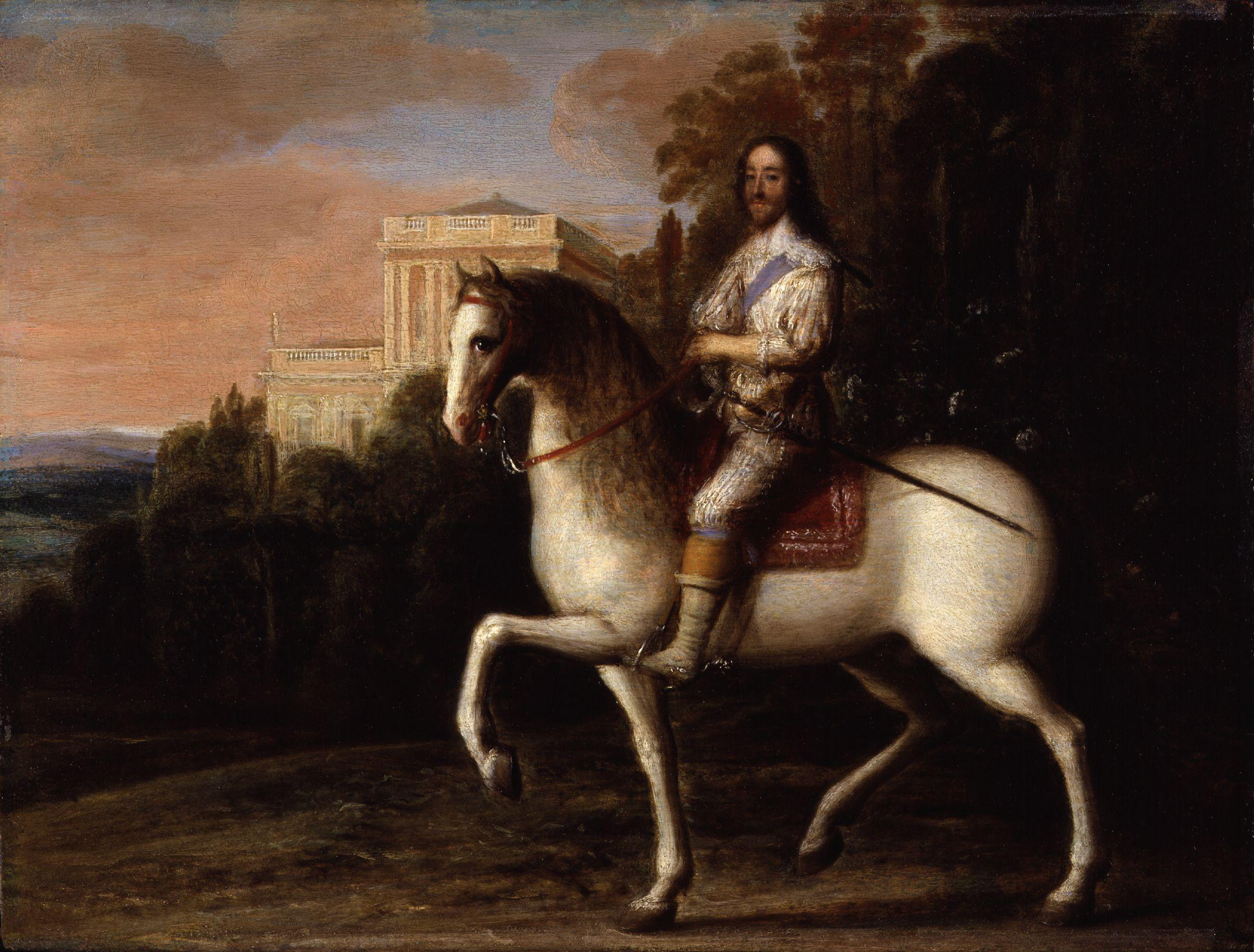 King Charles I, by unknown artist. All images in this batch have an unknown author, but there is strong evidence it was first published before 1923 (based mainly on the NPG's estimated date of the work).